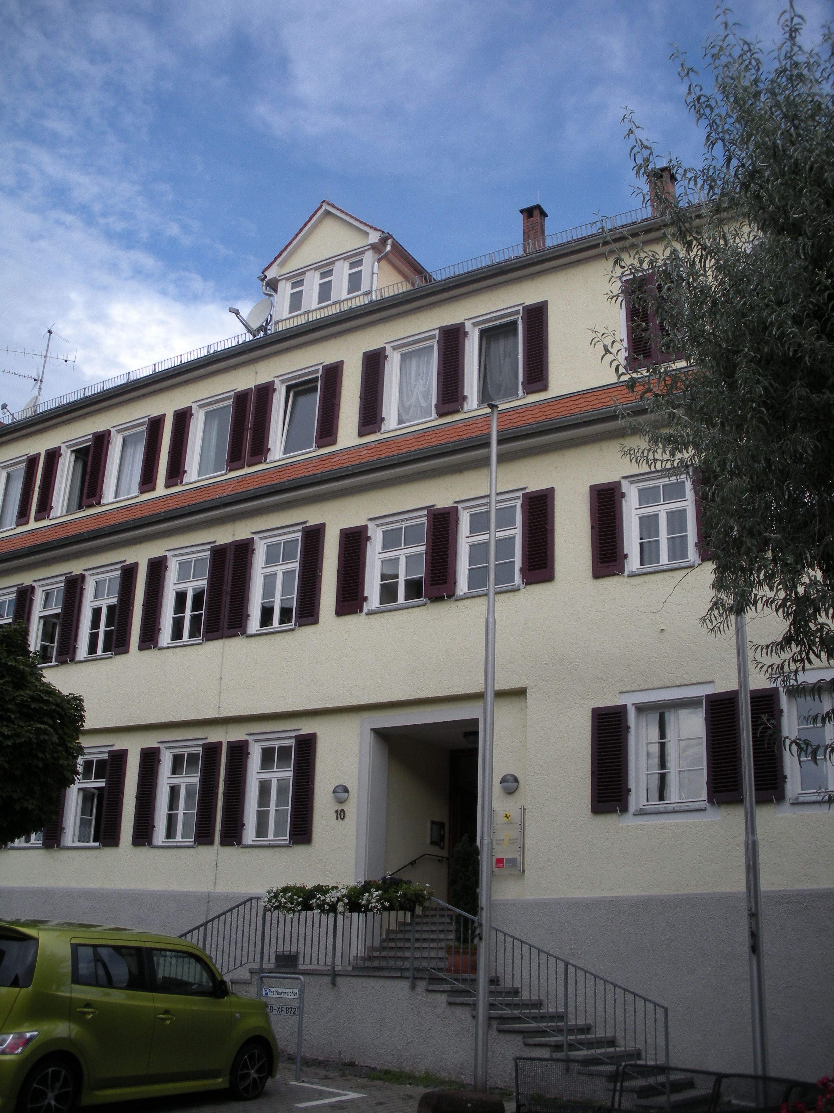 Town Hall of Stuttgart-Münster